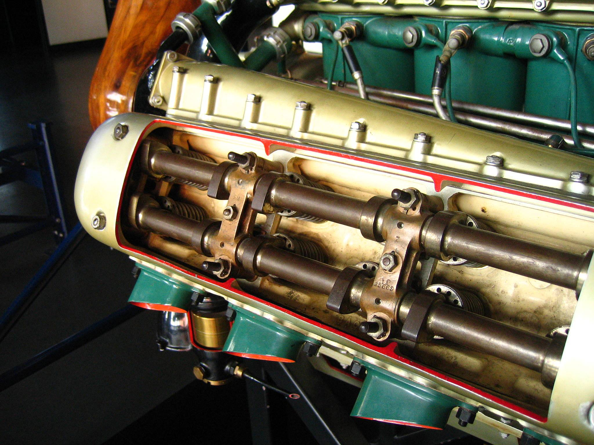 Sectioned cambox of a Napier Lion aero-engine at the Science Museum, London